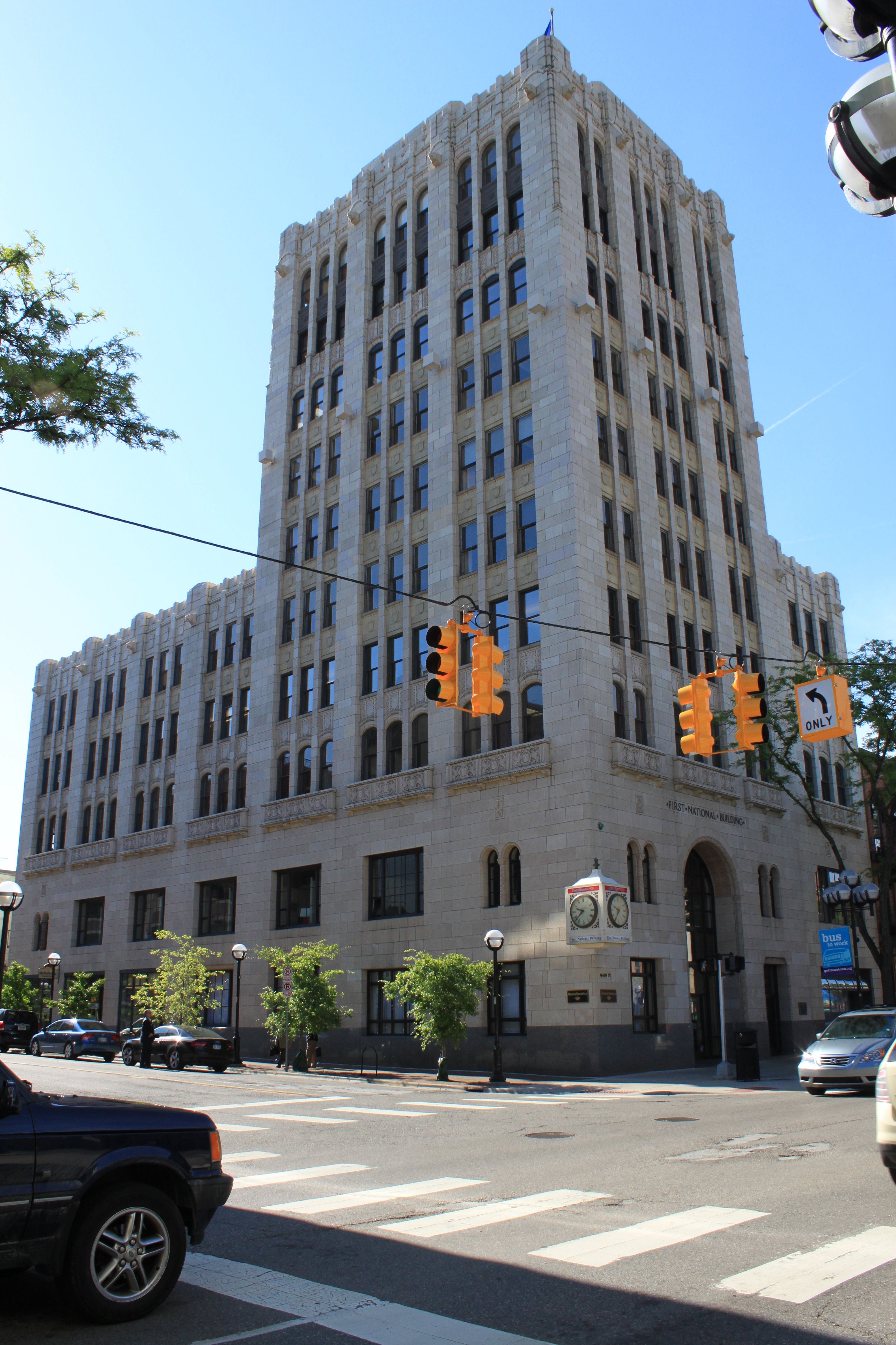 First National Building, 201 S. Main, Ann Arbor, Michigan 48104. Architects: Fry & Kasurin.